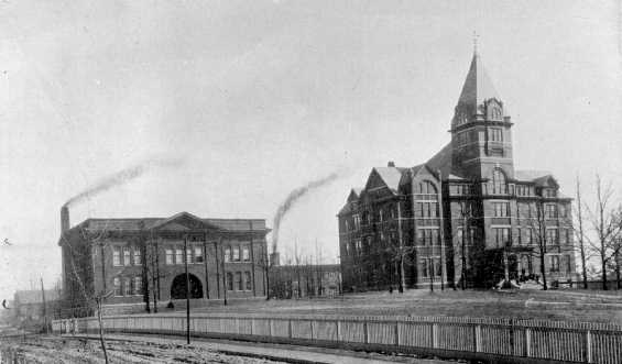 Description: A picture taken of Georgia Tech's new shop building (left) and Tech Tower (right) circa 1899. The picture appears to be taken from Cherry Street near North Avenue, facing north; According to [1], it was published around 1899. Source: From on